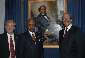 Congressman Robert Ney, Chair of the House Fine Arts Board, Portrait Artist - Simmie Knox and Congressman Chaka Fattah pose with the portrait of America's first African American Congressman, Joseph H. Rainey.